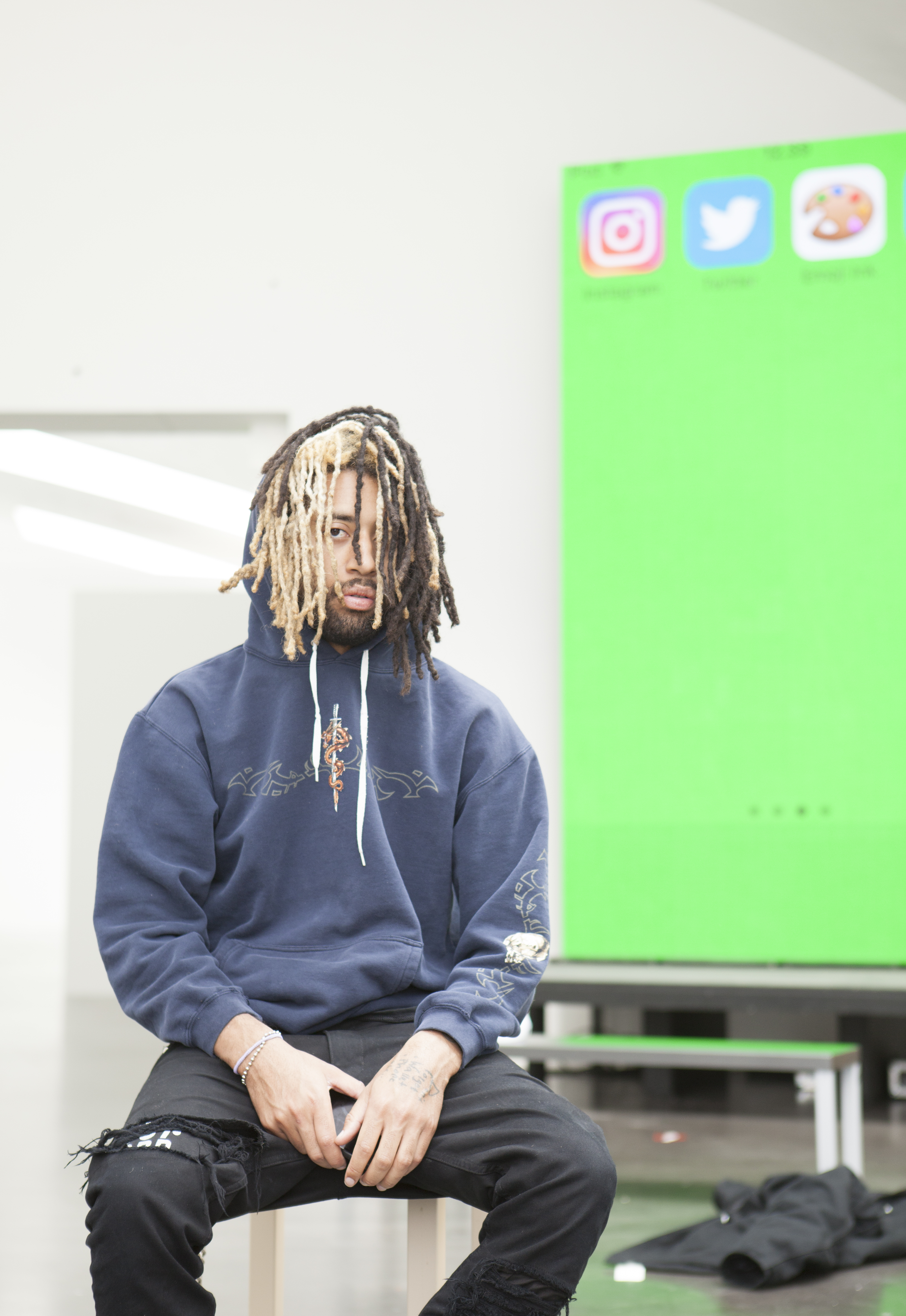 Artist_Yung_Jake_in_KiasmaPHOTO Finnish National Gallery /Pirje Mykkänen